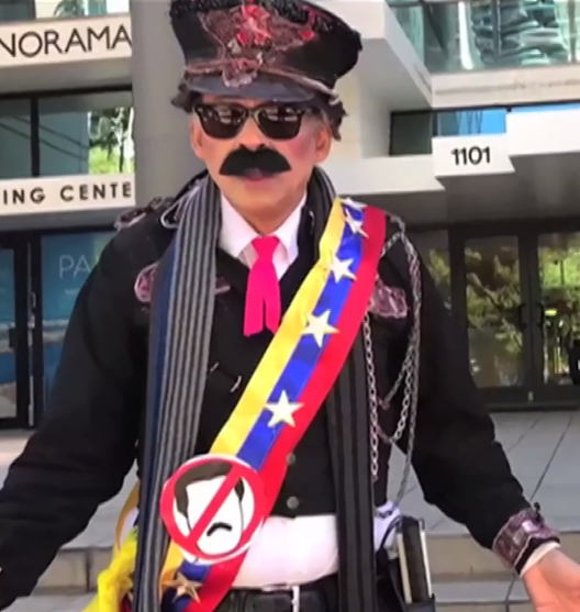 A man in Miami protests against Maduro in Jan 2019 by dressing as a caricature of the president